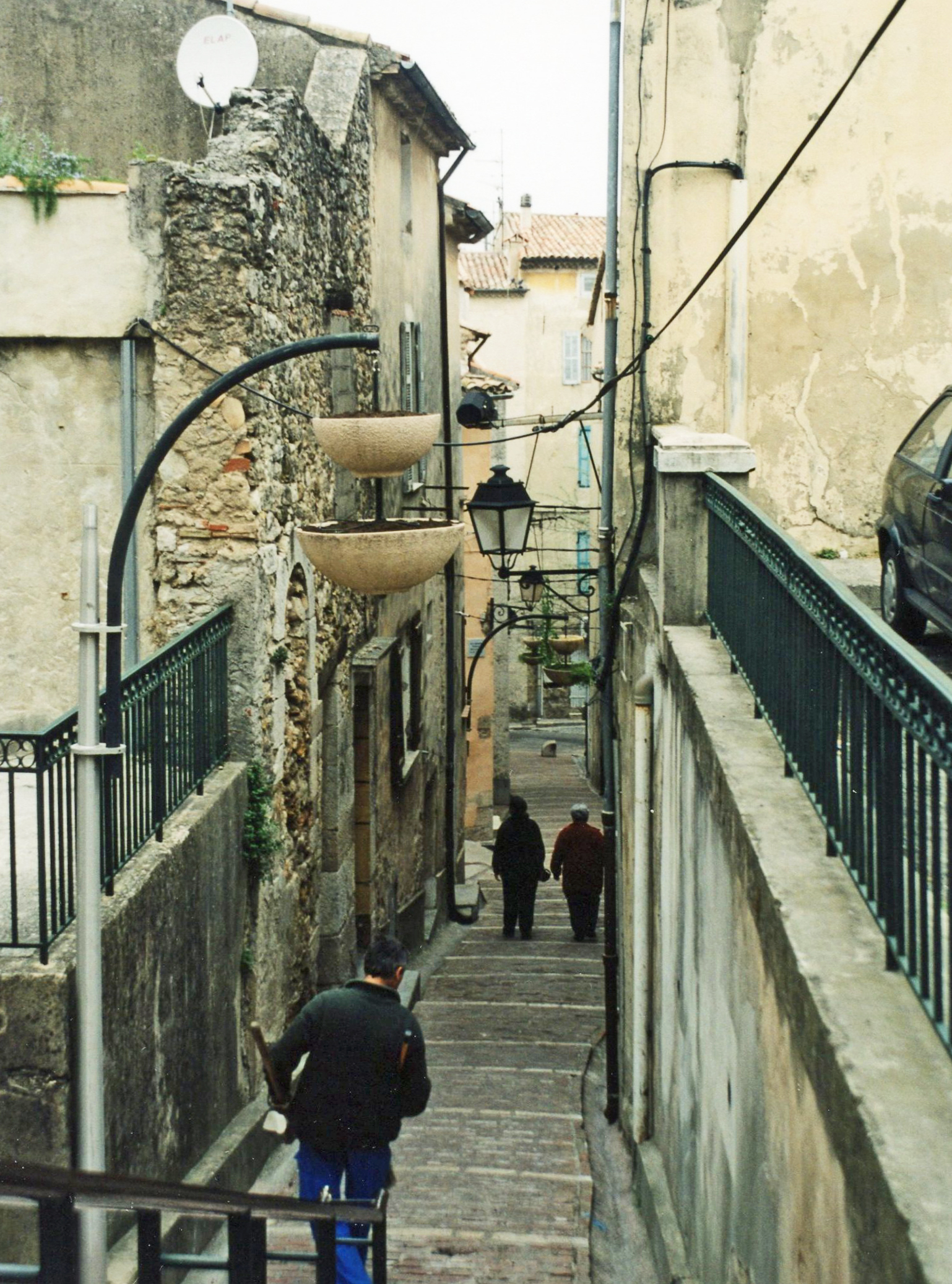 Brignoles, Var département, France